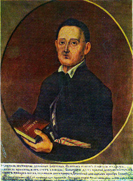 Hryhoriy Skovoroda